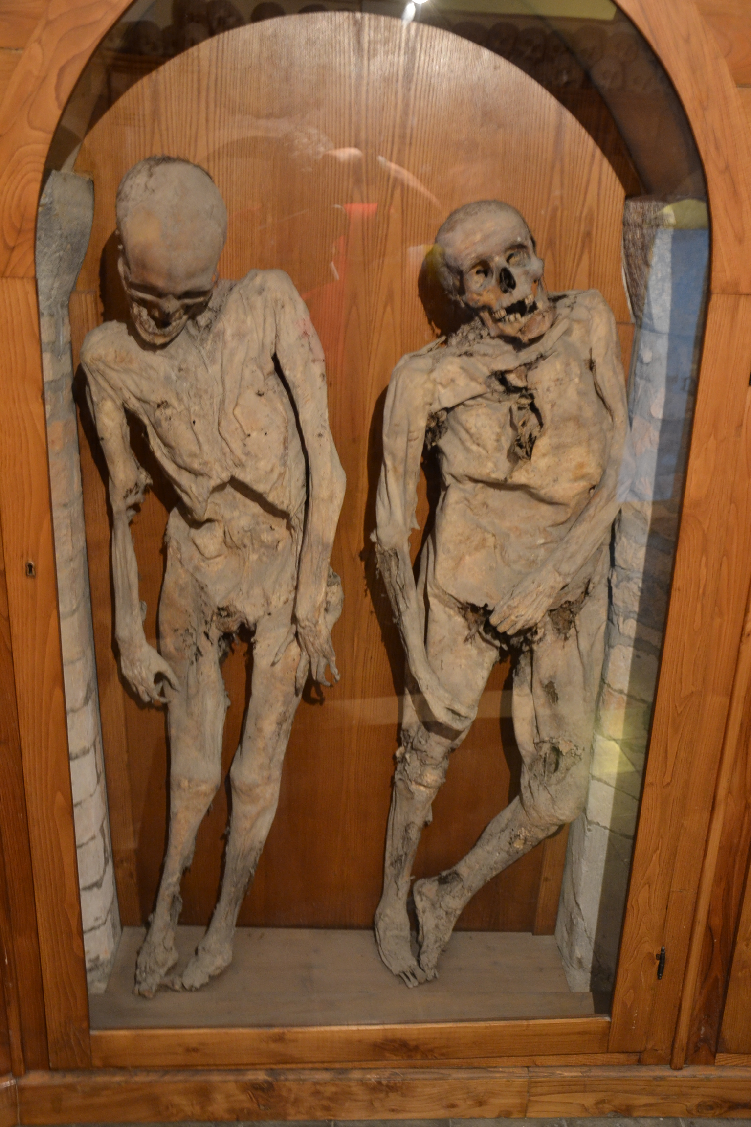 Church of the death, Urbania, formerly Papal State